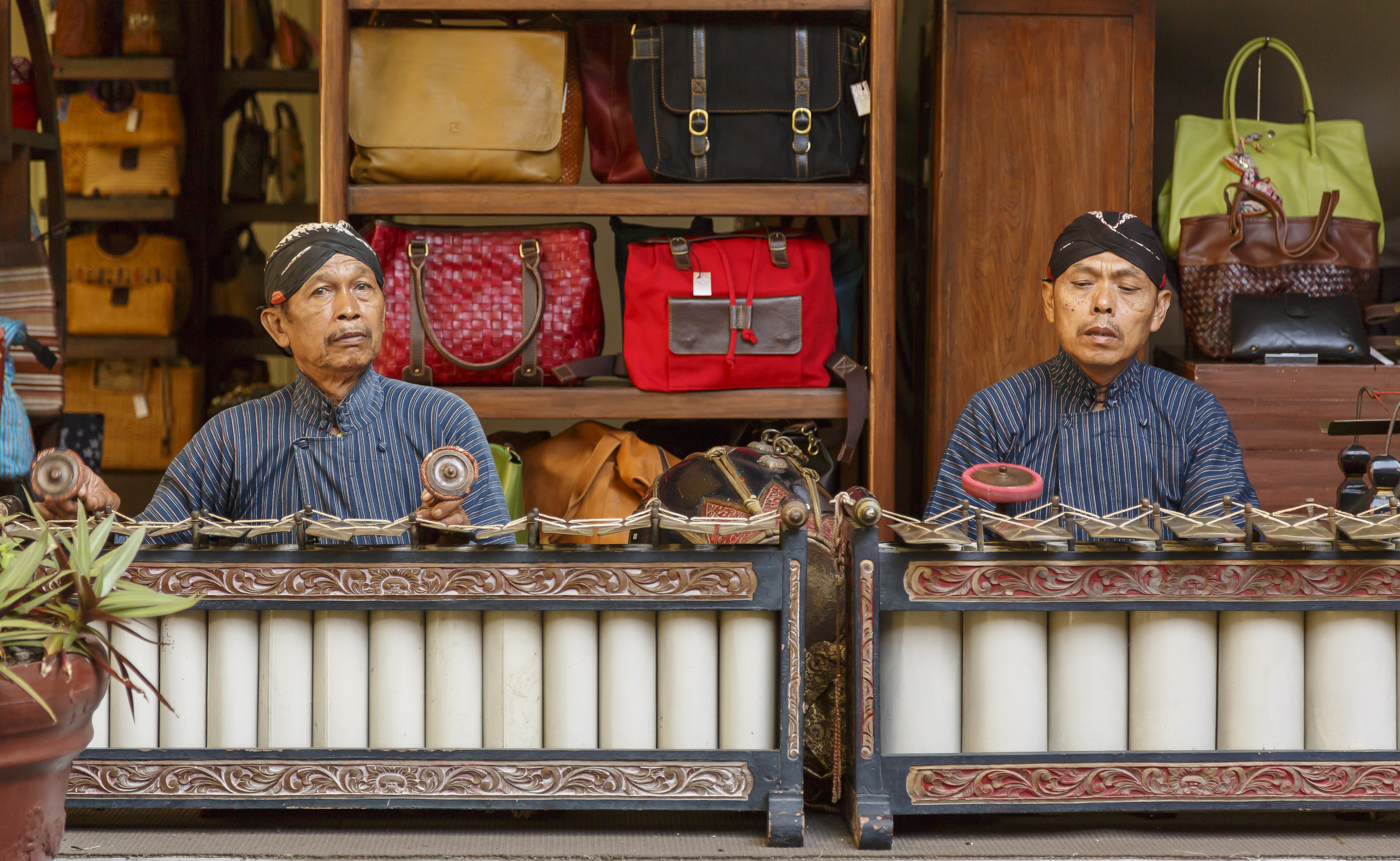 Yogyakarta, Indonesia: Two gamelan players with their Gendèr.